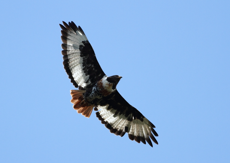 Buteo rufofuscus (Accipitridae) (Jackal Buzzard), Lesotho